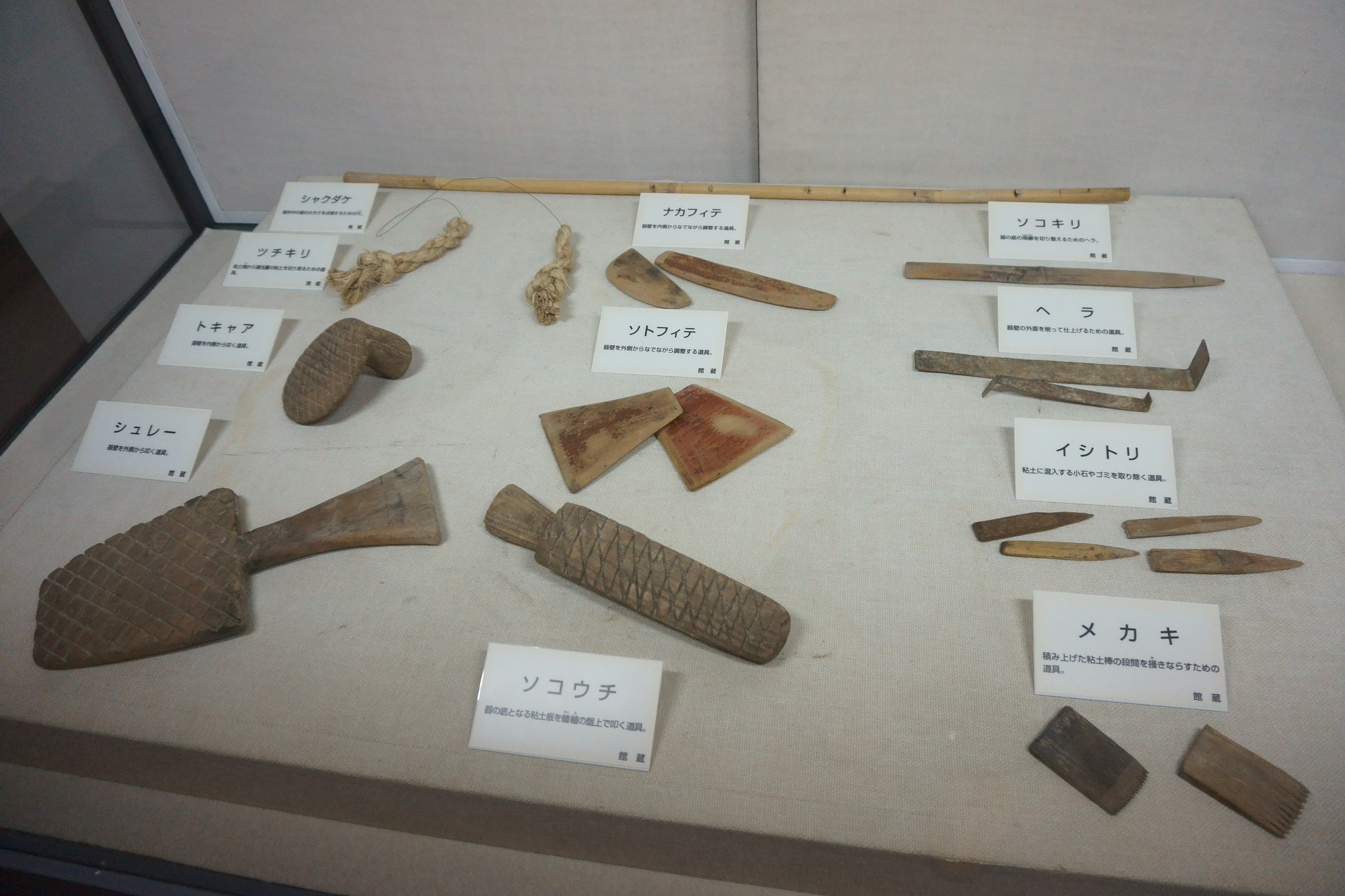 Tools used to make Japanese Handō style ceramic tall jars, displays at Saga Prefectural Museum.